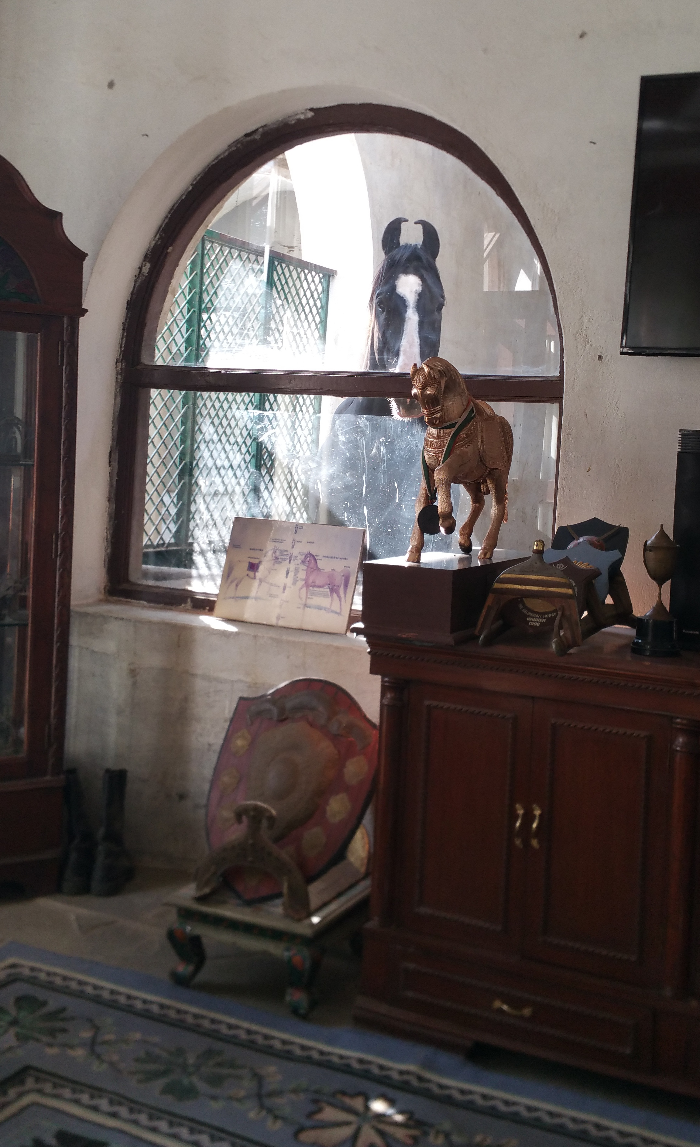 Ravla Khempur hotel, Rajasthan, India.